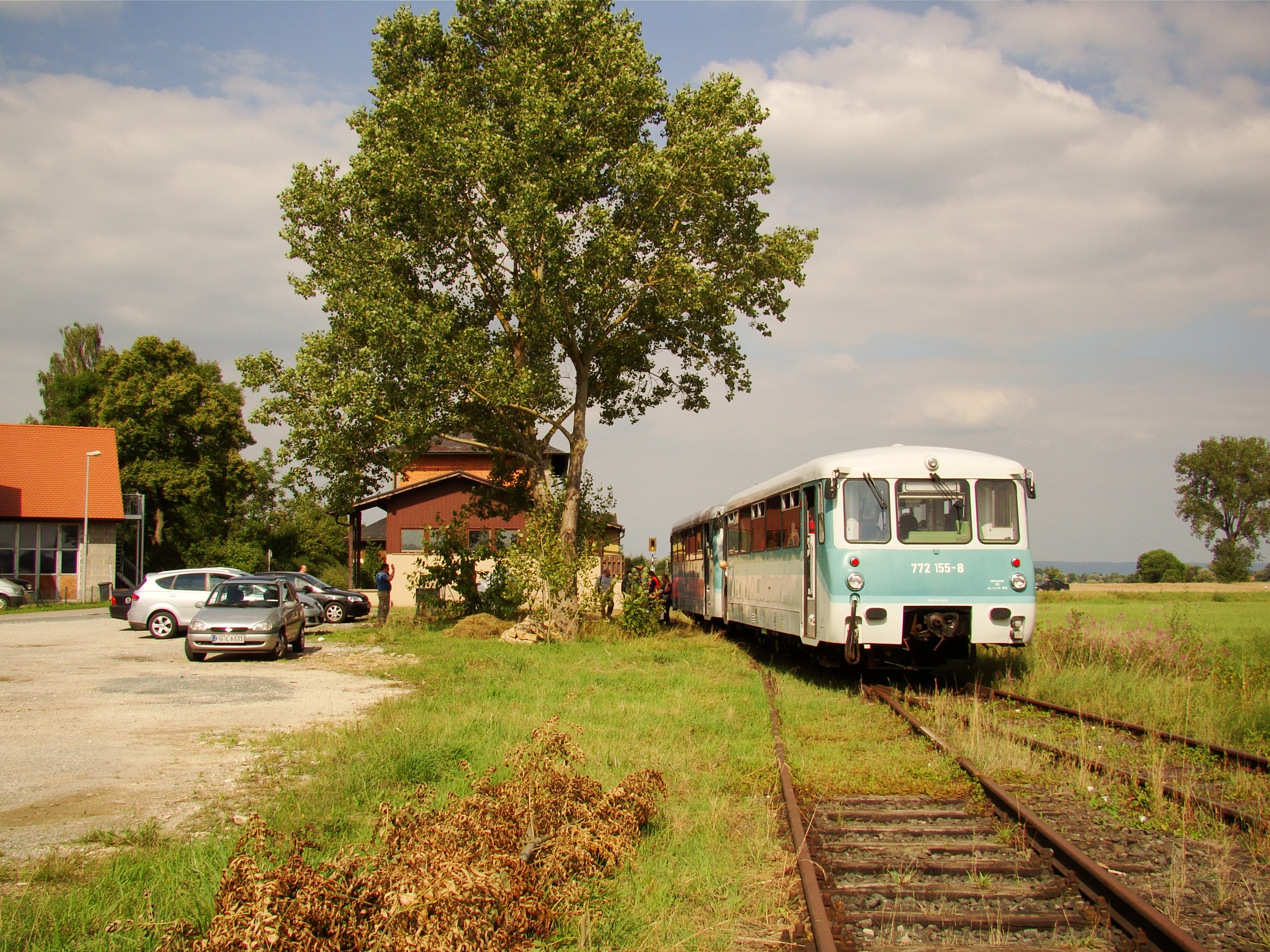 Station Steppach-Pommersfelden at the Strullendorf-Schluesselfeld line: The railbuses 772 155 and 772 367 were waiting at 07th August 2010 on their way to Bamberg.